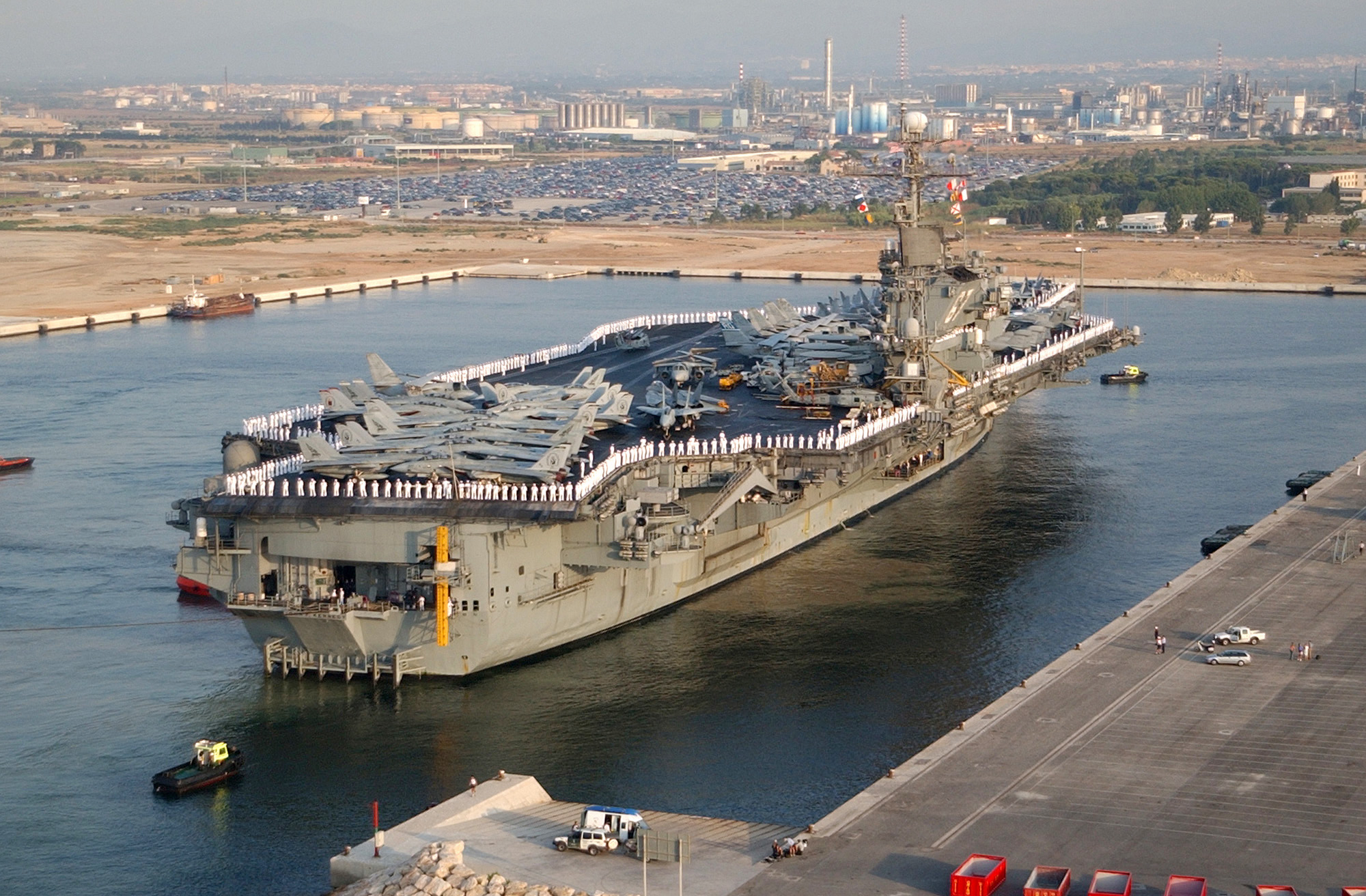 Tarragona, Spain (August 3, 2002) – The aircraft carrier USS John F. Kennedy (CV 67) pulls in to Spain for a short port visit while on her transit home. Kennedy and her embarked Carrier Air Wing Seven (CVW-7) are returning after being relieved by the USS George Washington (CVN 73) following sustained combat missions in support of Operation Enduring Freedom. U.S. Navy photo by Photographer’s Mate 1st Class Jim Hampshire. (RELEASED)